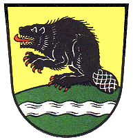 Coat of arms of Beverstedt in Lower Saxony, Germany.